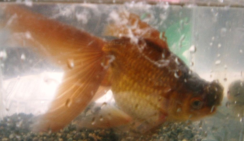 chakin(goldfish)